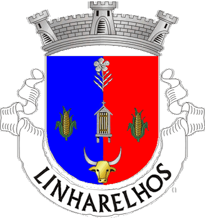 Linharelhos